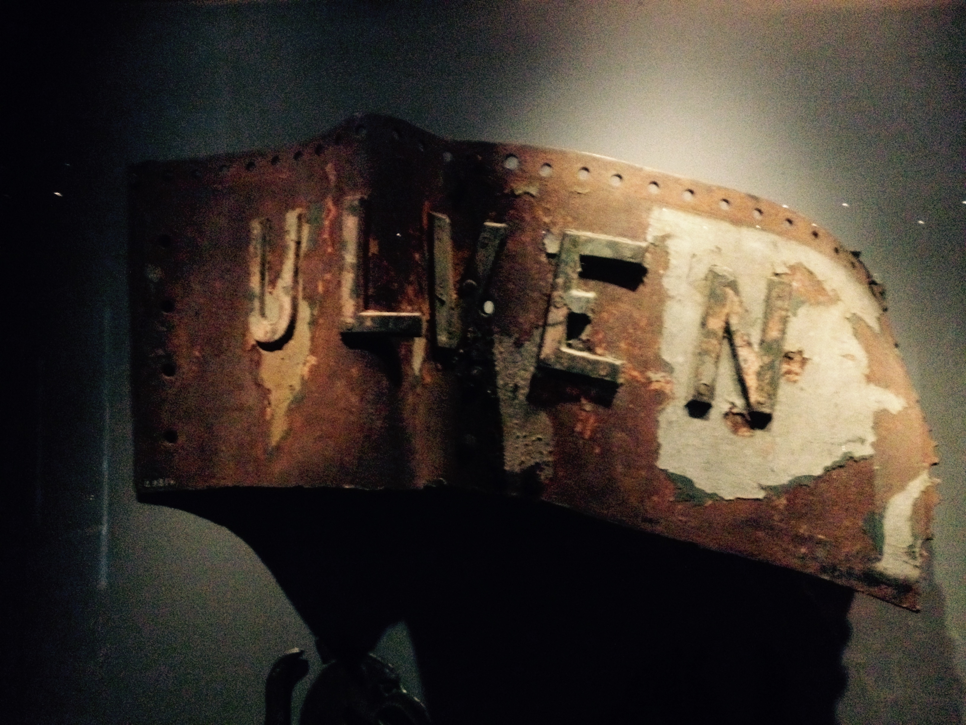 Metal plate from the Swedish submarine HMS Ulven at Maritime Museum in Stockholm..